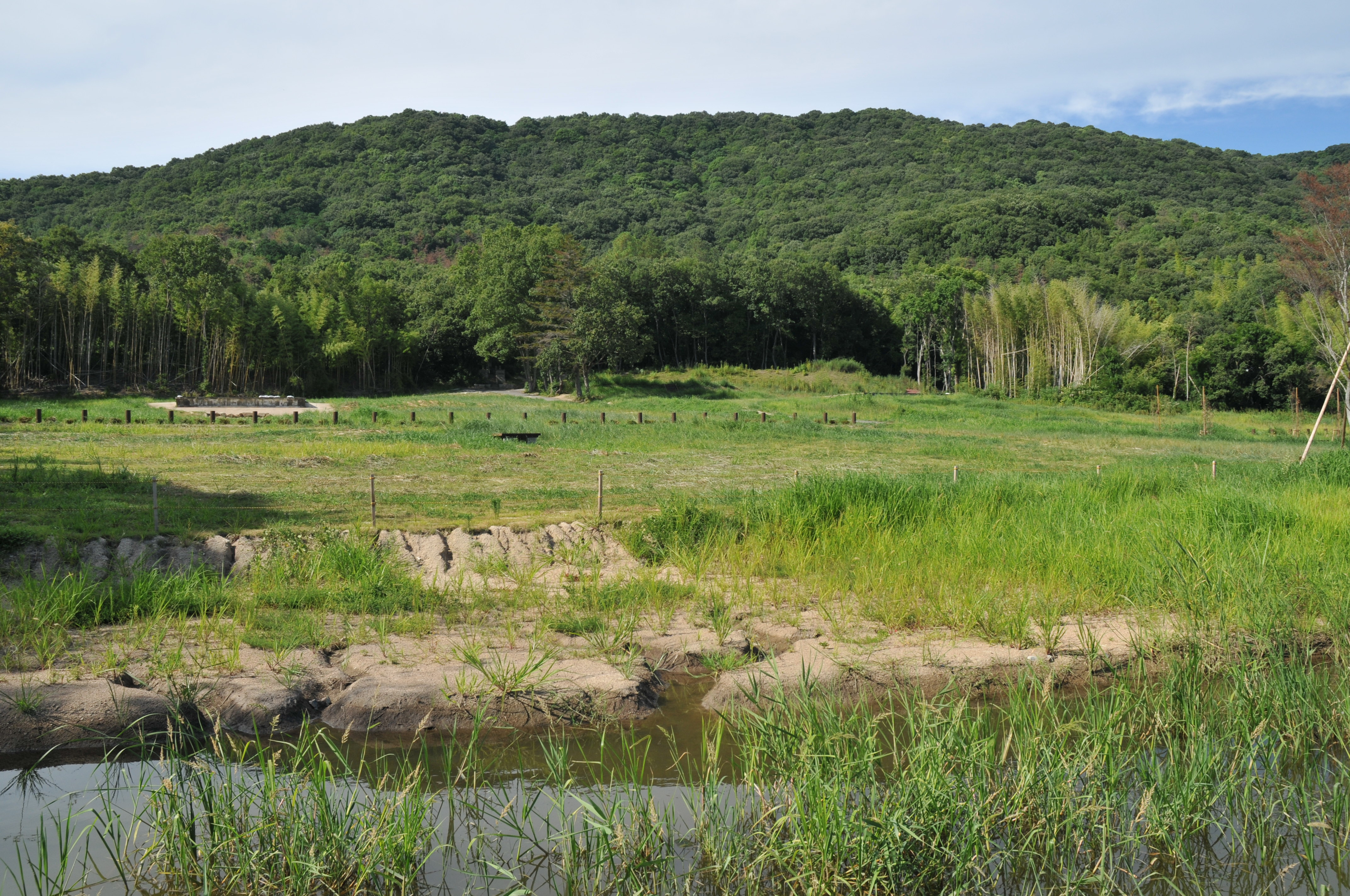 view of Shoda dilapidated temple ruins